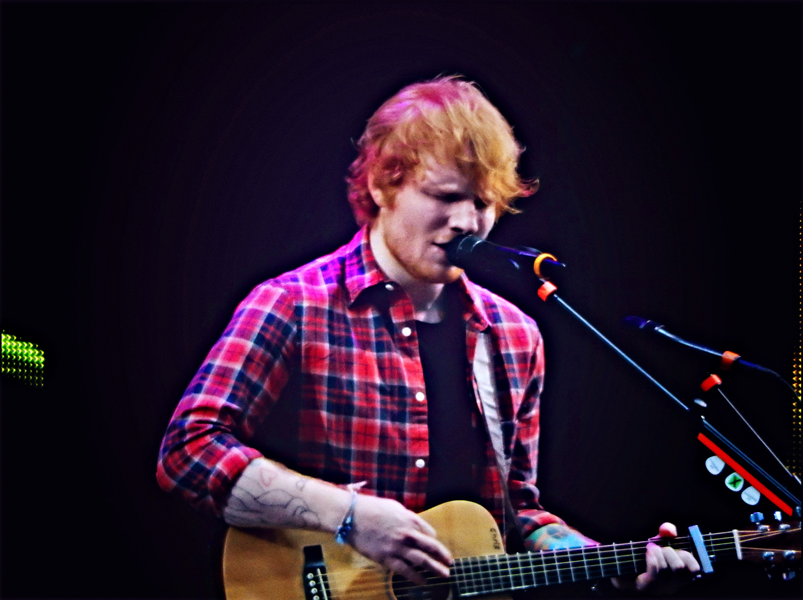 Ed Sheeran, V Festival 2014, Chelmsford